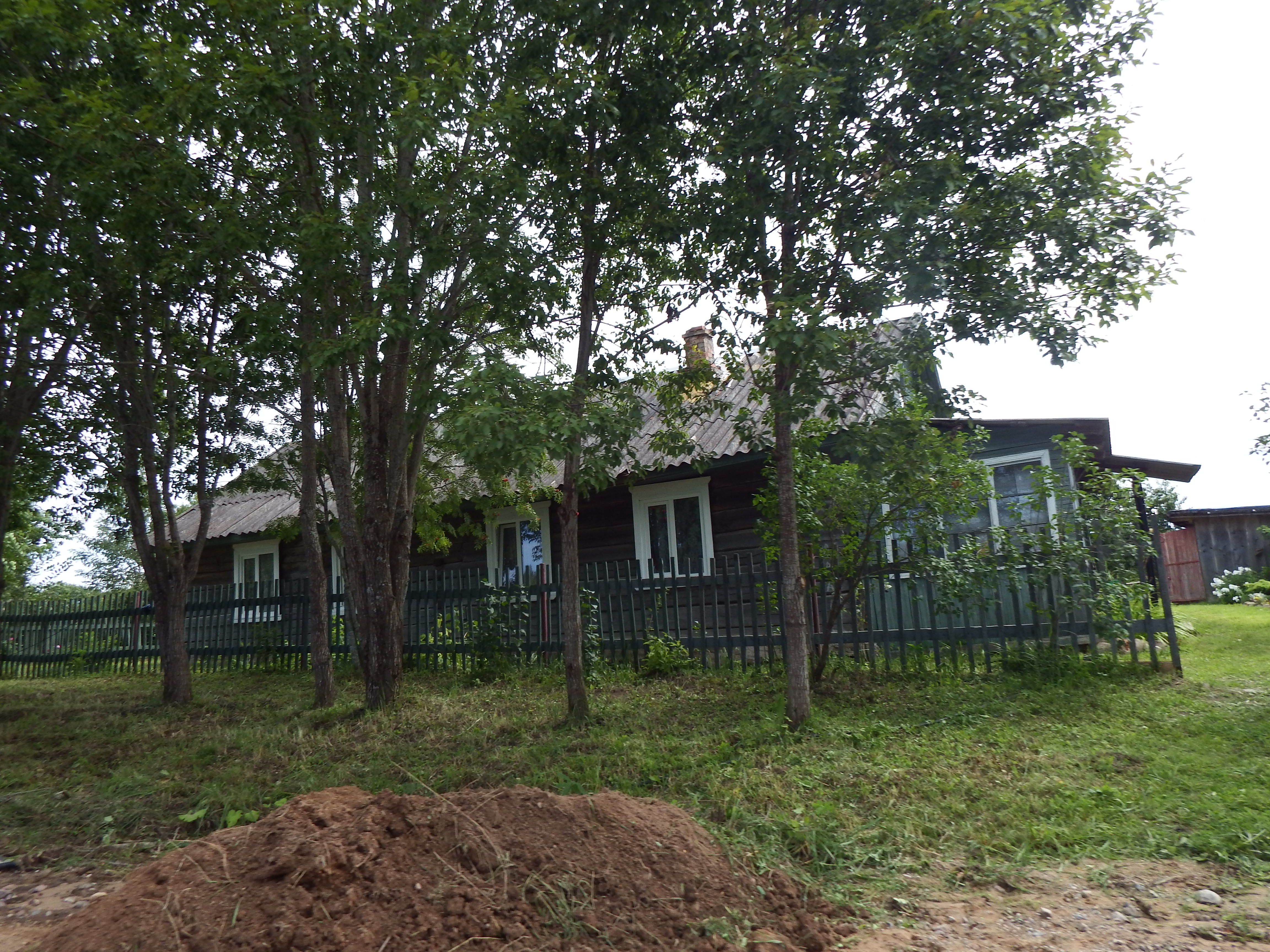 Serbino, Pliusski district, Pskov region